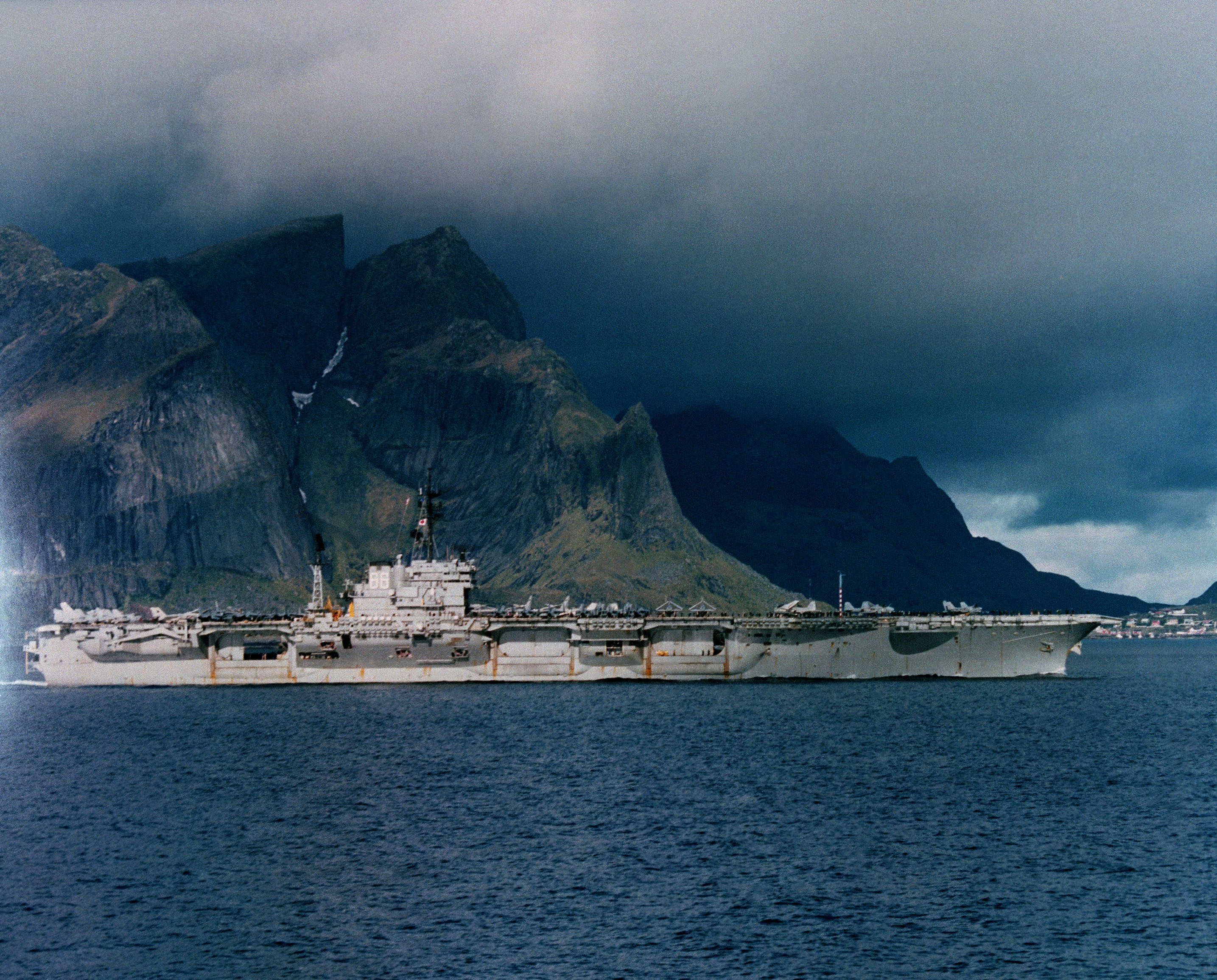 A starboard beam view of aircraft carrier USS AMERICA (CV 66) underway in Norwegian waters during Exercise OCEAN SAFARI '85.